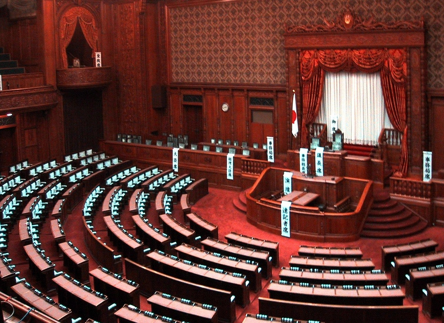 The Diet of Japan in Tokyo